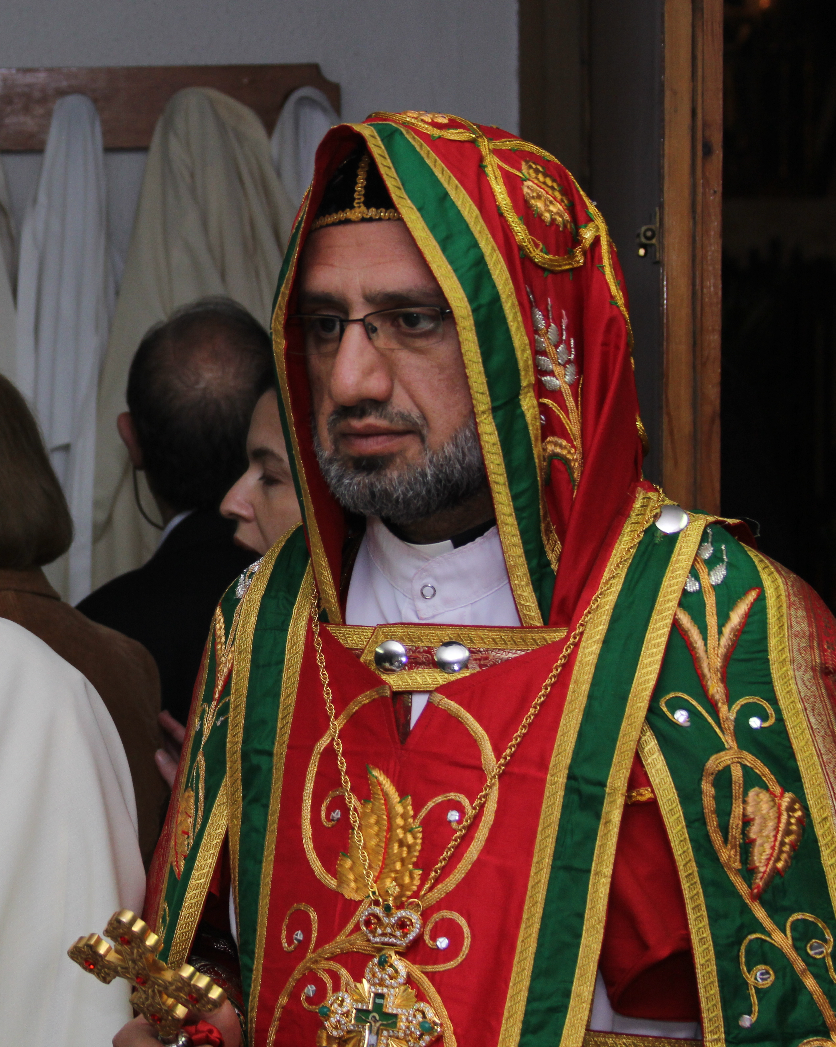 Syriac Orthodox archbishop Nicholas Abdulahad before a Divine Liturgy celebrated by the Syriac Catholic patriarch Ignatius Joseph III Younan in Spain.